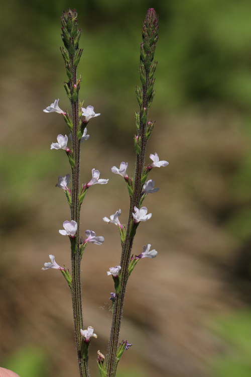 The Red Hills is a region of 7,100 acres of public land located near the intersection of State Highways 49 and 120, just south of the historic town of Chinese Camp in Tuolumne County. The Red Hills are noticeably different from the surrounding countryside. The serpentine-based soils in the area support a unique assemblage of plant species. Included among the thorny buckbrush and foothill pine is a rich variety of annual wildflowers, which put on a showy display every spring. In the Red Hills buckbrush and other shrubs provide browse and seeds for small populations of mammals, including mule deer, jackrabbits and rodents. Coyotes, bobcats and fox can also be found in the Red Hills. Approximately 88 bird species have been observed in the Red Hills. Some common species include mourning dove, acorn woodpecker, ash-throated flycatcher, scrub jay, wrentit, plain titmouse, bushtit, Bewick's wren and house finch. Valley quail and mourning doves are the major game birds in the Red Hills. An abundant insect population supports insectivorous birds including western kingbirds, ash- throated flycatcher, tree swallows, barn swallows, black phoebes and others. Raptors include the red-tailed hawk, Cooper's hawk, prairie falcon and great horned owl. Fish-eating birds seen in the Red Hills include the belted kingfisher and great blue heron. Roadrunners can also be found. Four sensitive species of animals are known from the Red Hills. Wintering bald eagles roost along the shores of Don Pedro Reservoir and have been observed where Six Bit Gulch enters the lake. As many as 20 bald eagles have been sighted during the winter on the shores of Don Pedro Reservoir, roosting in stands of foothill pines. Photo by Patrick Congdon, BLM volunteer.